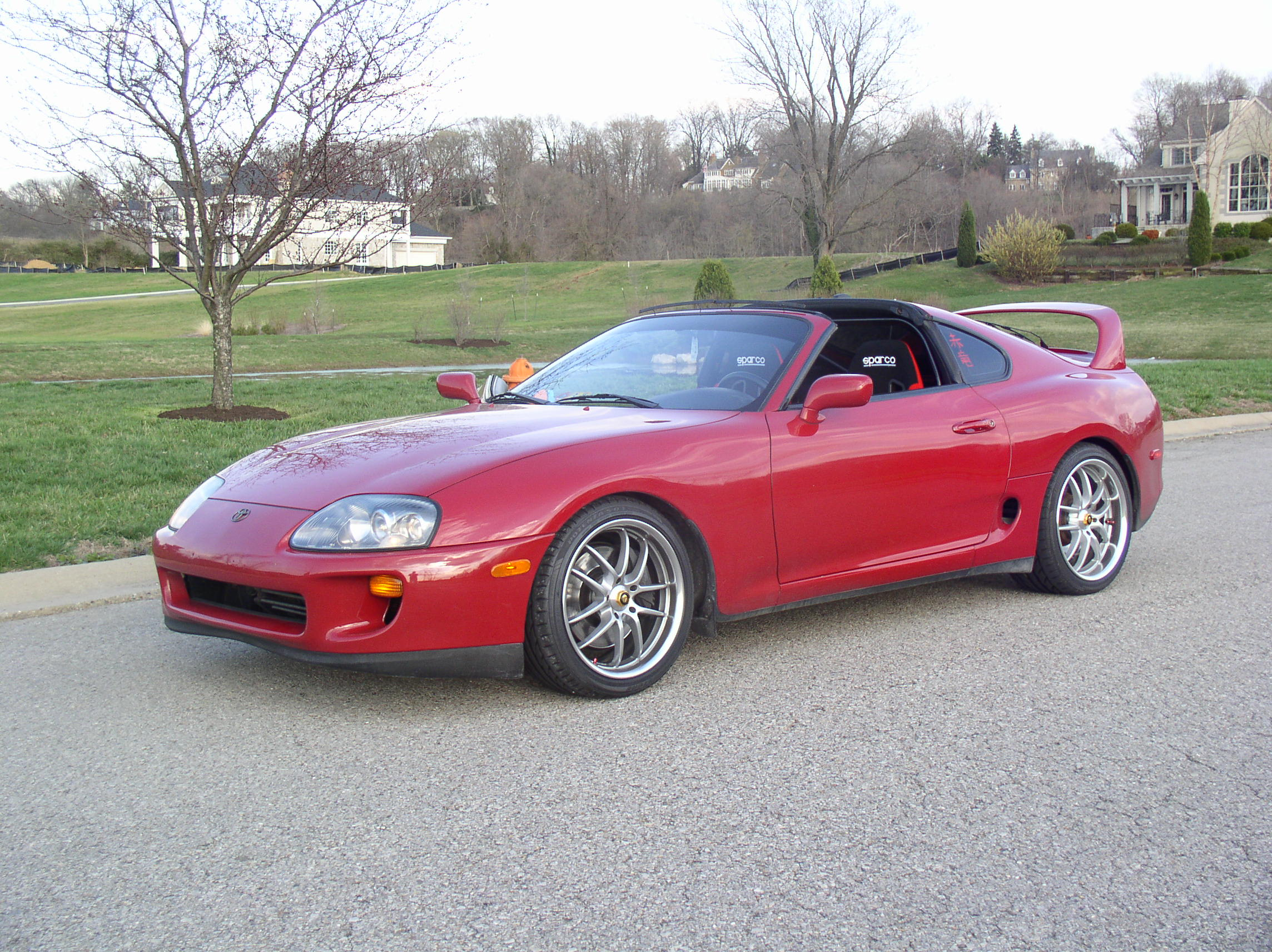 A 1994 Toyota Supra twin turbo parked off of River Road in Louisville, Kentucky.